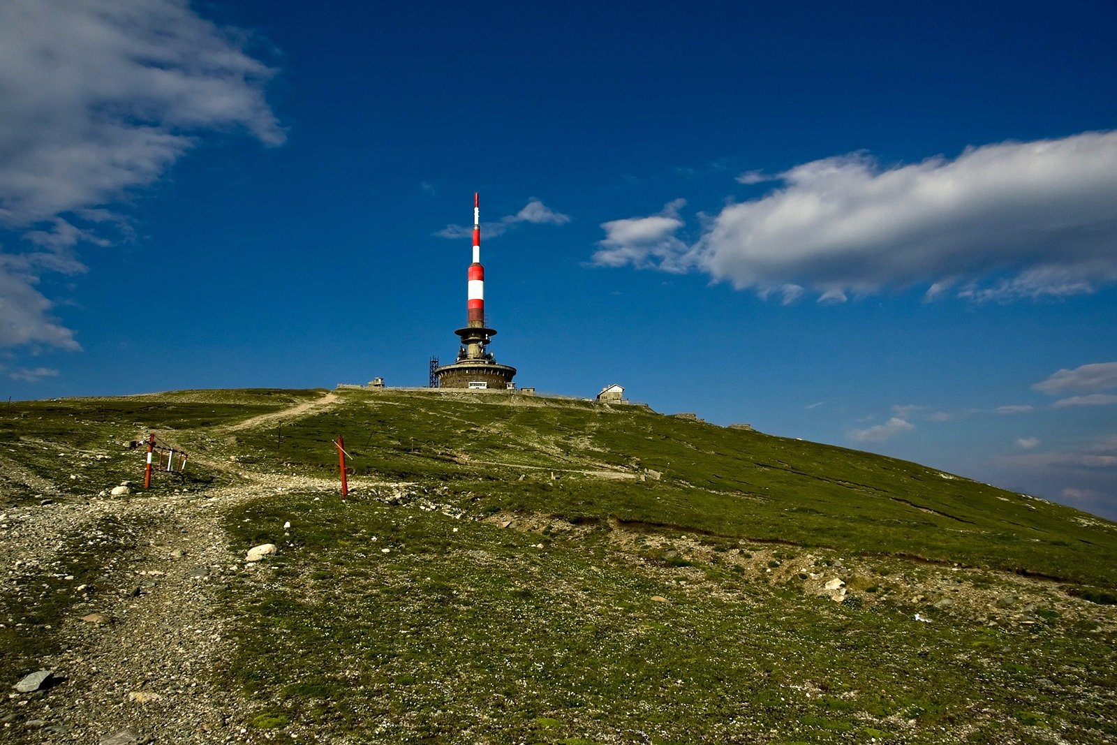 Out on an afternoon trek over the mountain tops, heading to Costila by the curved, rocky offroad path. From up there you can pretty much see the whole Prahova Valley, the Cross and the Omu Summit.